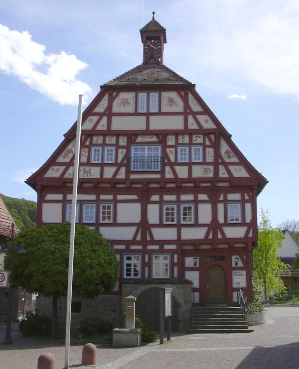 Town hall of Hessigheim, Germany